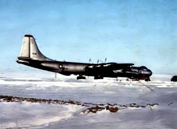 SAC B-36 Bomber at Thule AB, Greenland, 1950s